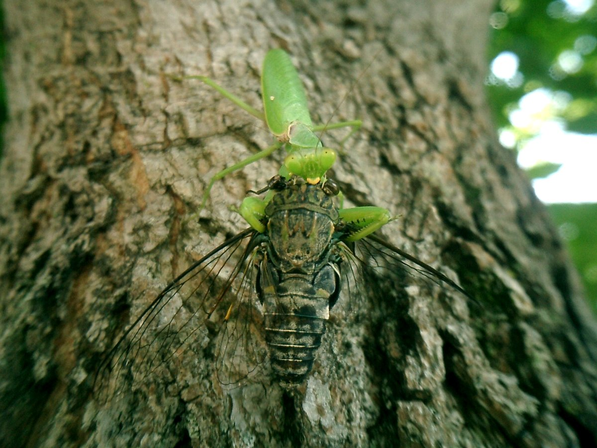 Hierodula_patellifera_preys_on_maculaticollis